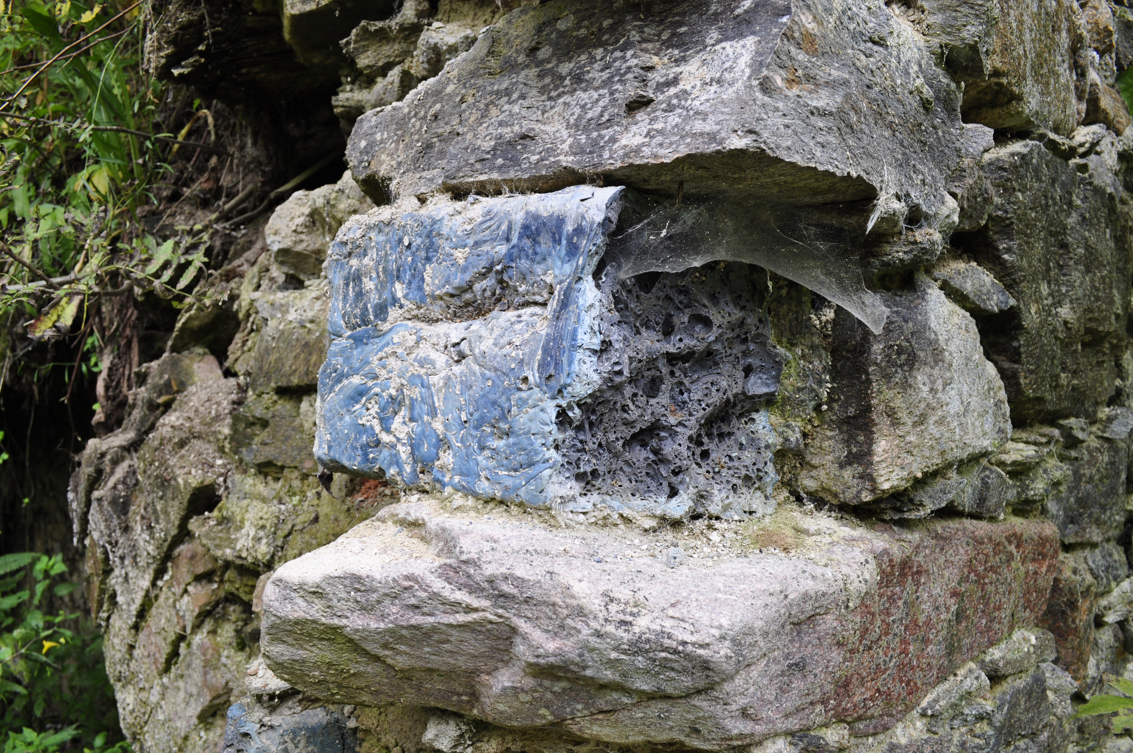 Detail of the wall of the building